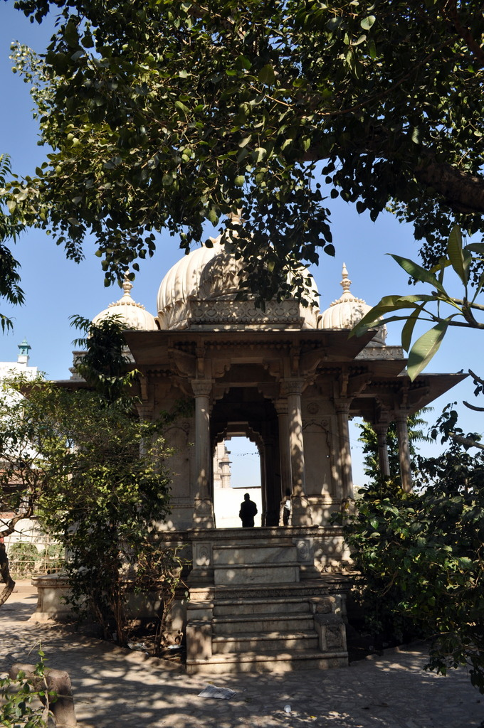 Madan Lal Dhingra memorial, Ajmer, Rajasthan